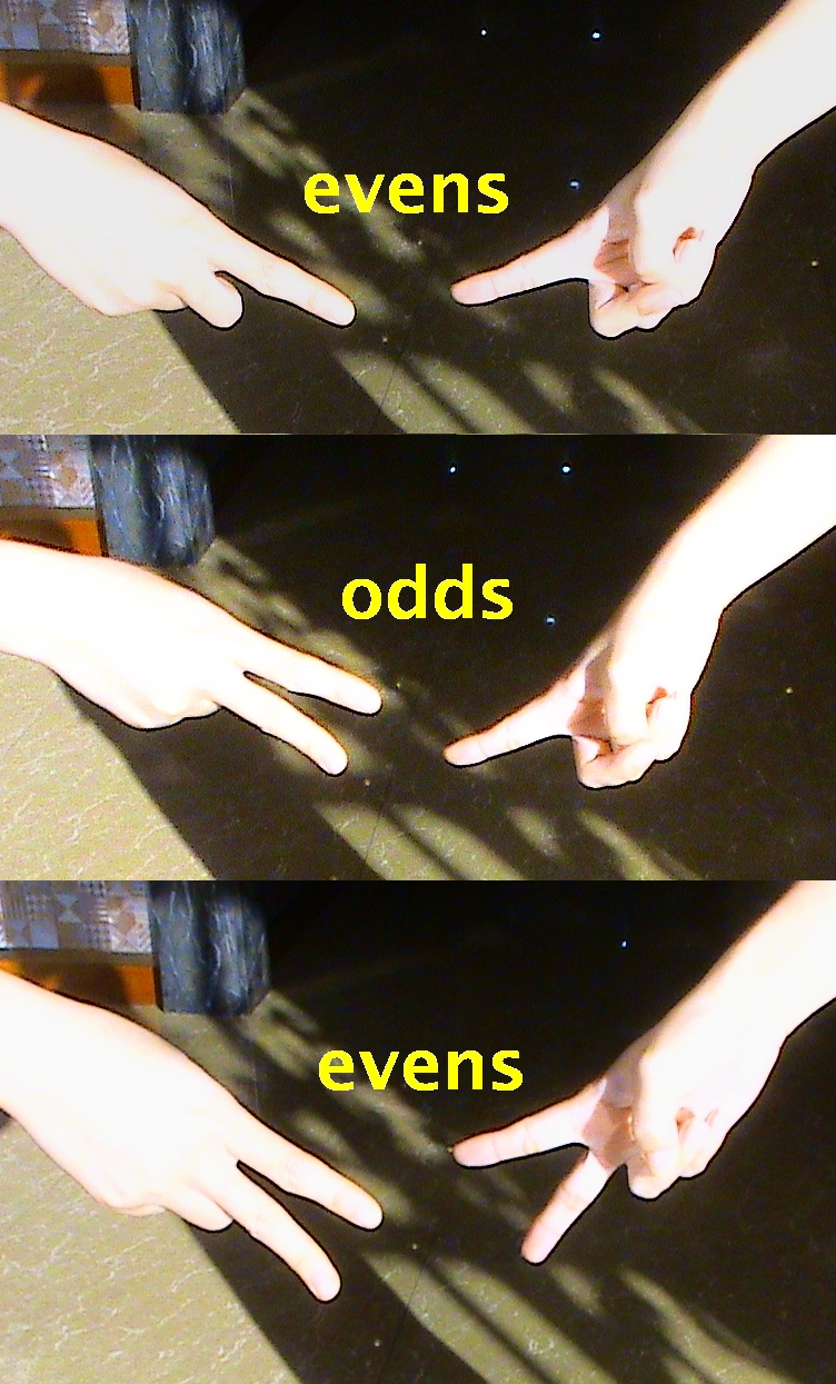 Example of outcomes of the game "odds and evens".